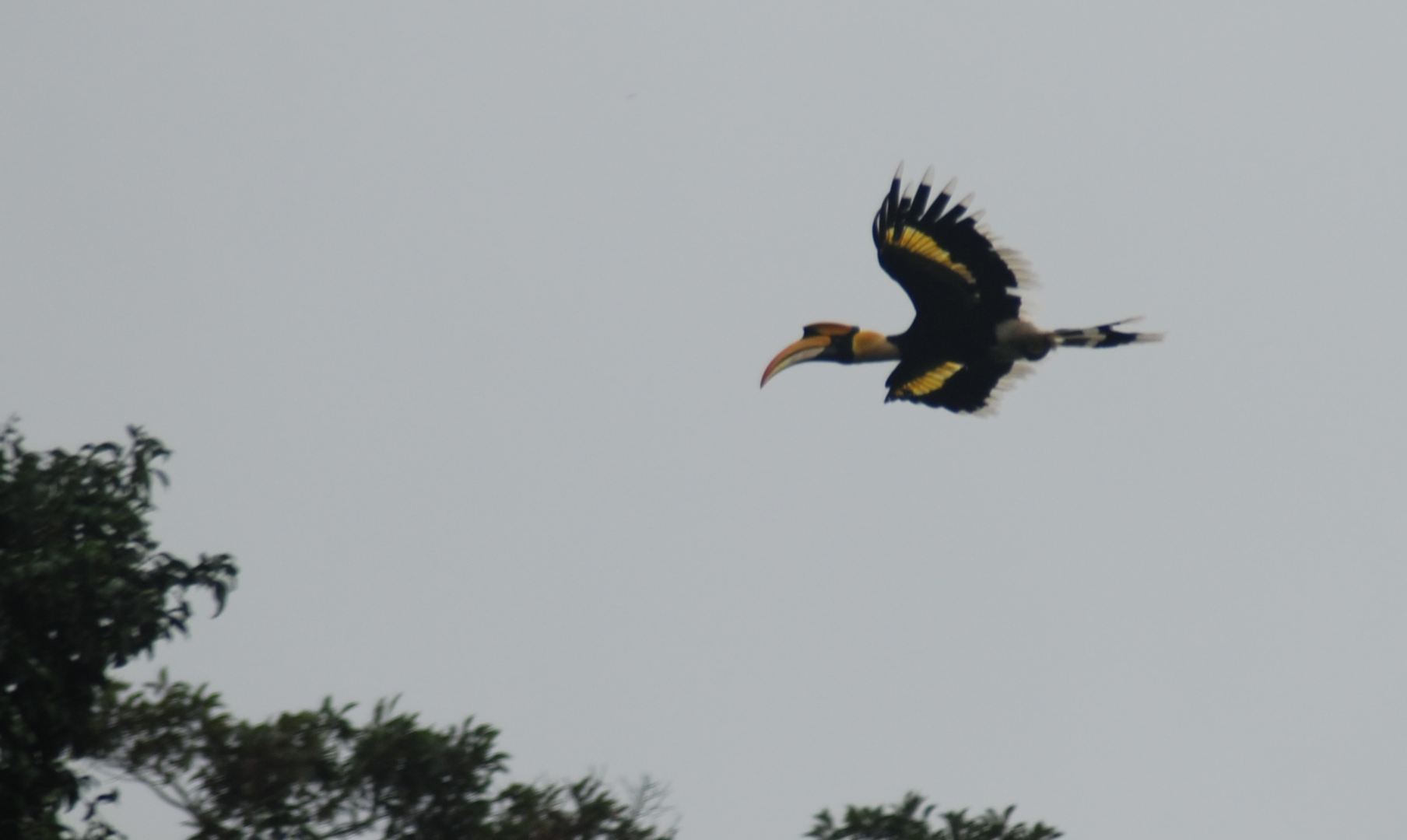 A great hornbill (Buceros bicornis) flying in Khao Yai National Park, Thailand